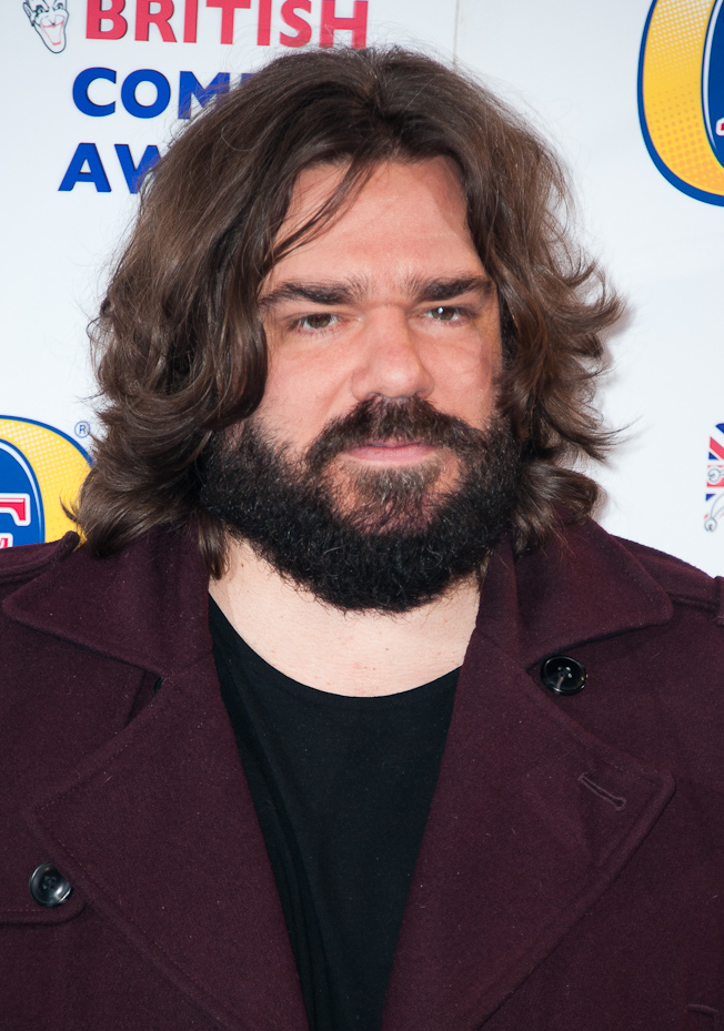 Matt Berry at the 2013 British Comedy Awards, 12 December 2013